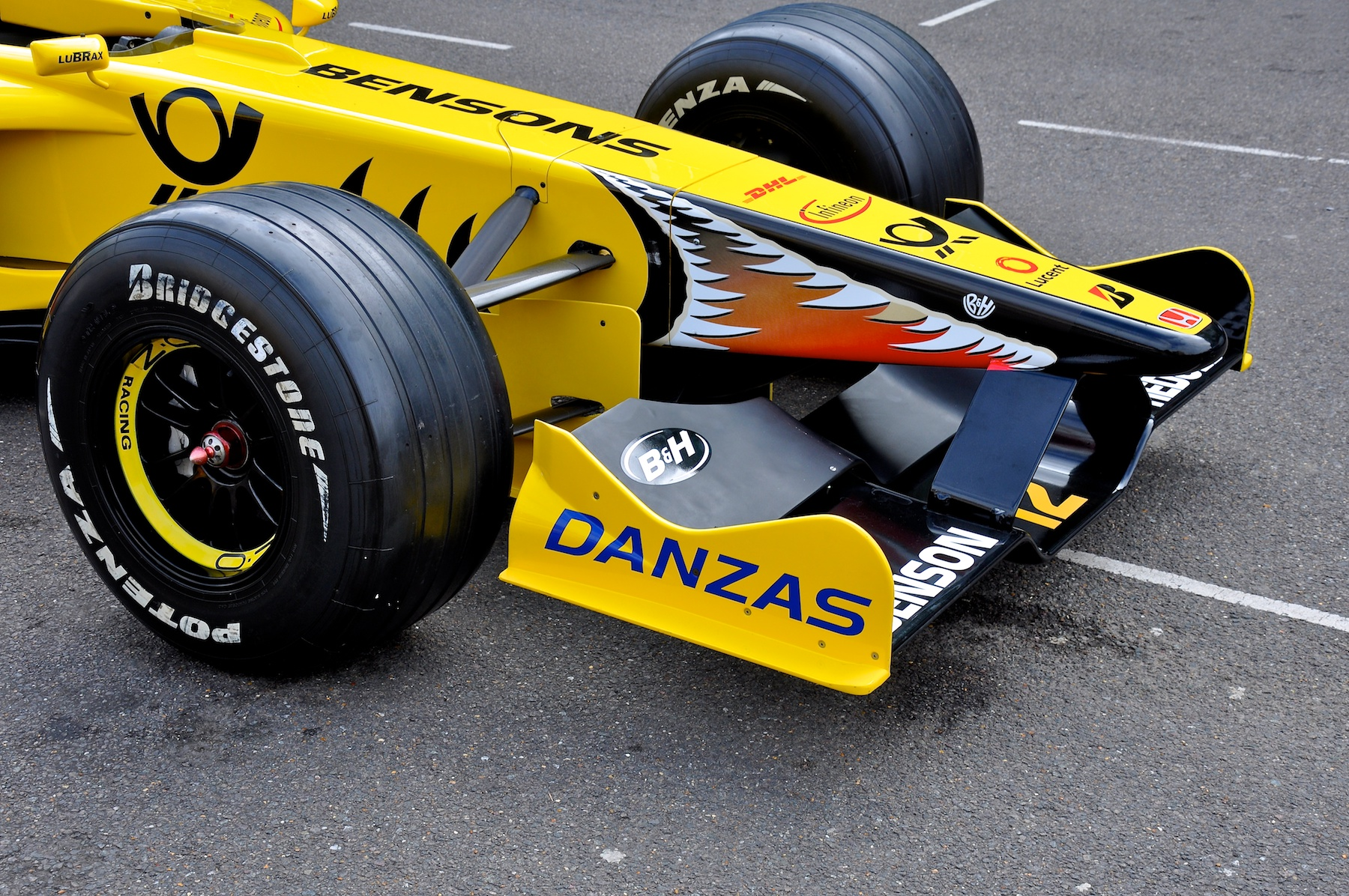 Jordan EJ11's front wing exposed at the 2010 Bury St Edmunds Motorsports Show